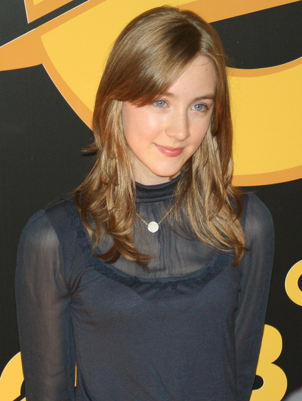 Saoirse Ronan at the European premiere of City Of Ember (2008) held at the Movie House Belfast, Northern Ireland on October 9, 2008.